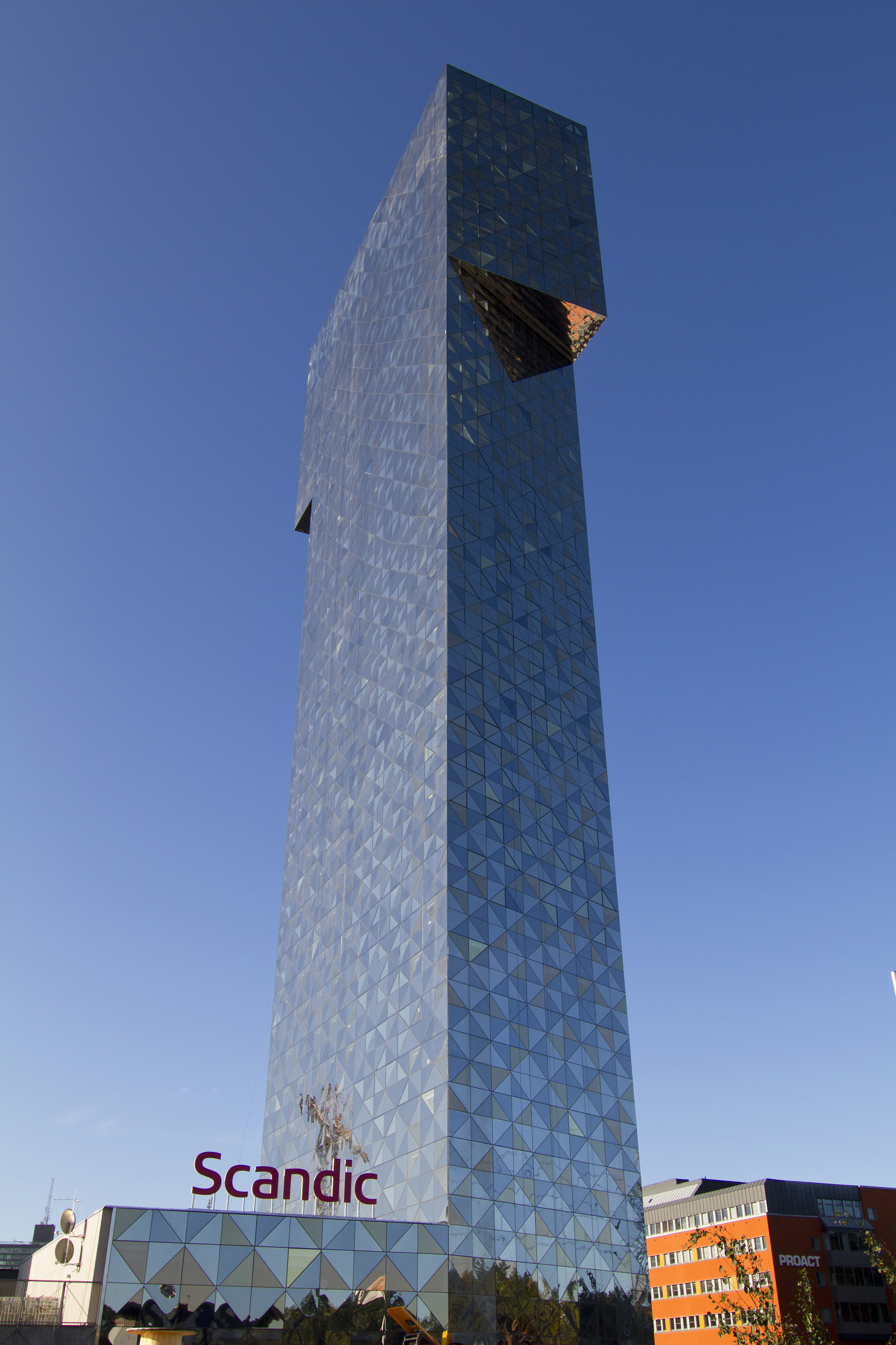 Victoria Tower in Kista north of Stockholm. At a height of 120 meters, it is one of the tallest buildings in Scandinavia. It houses Scandic hotel Victoria.